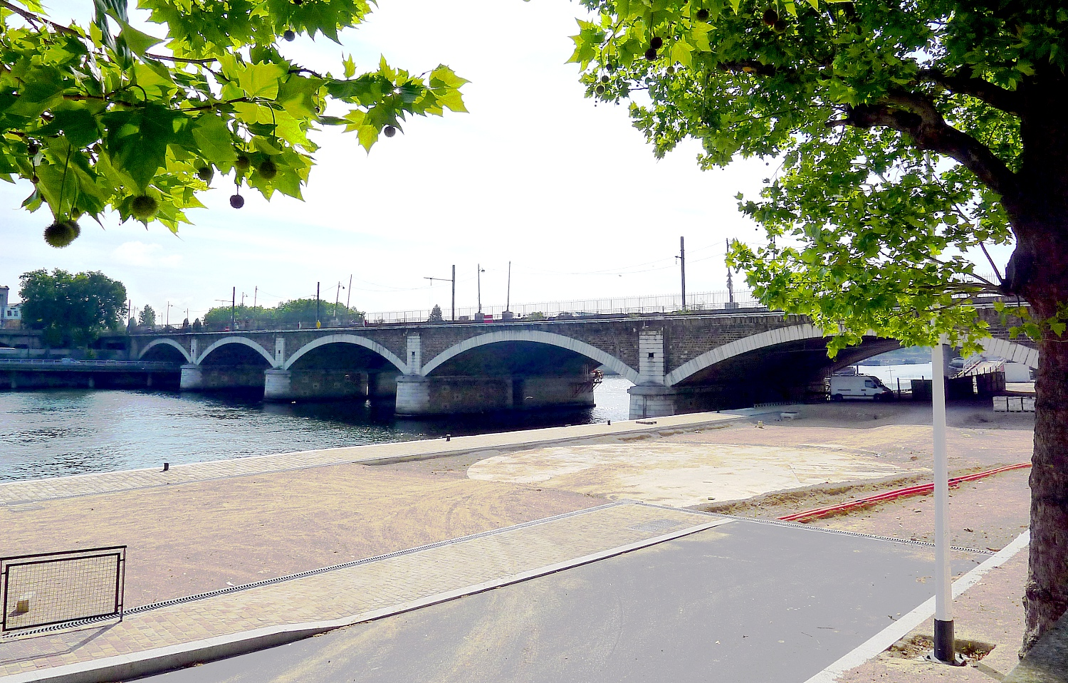 National bridge - Paris